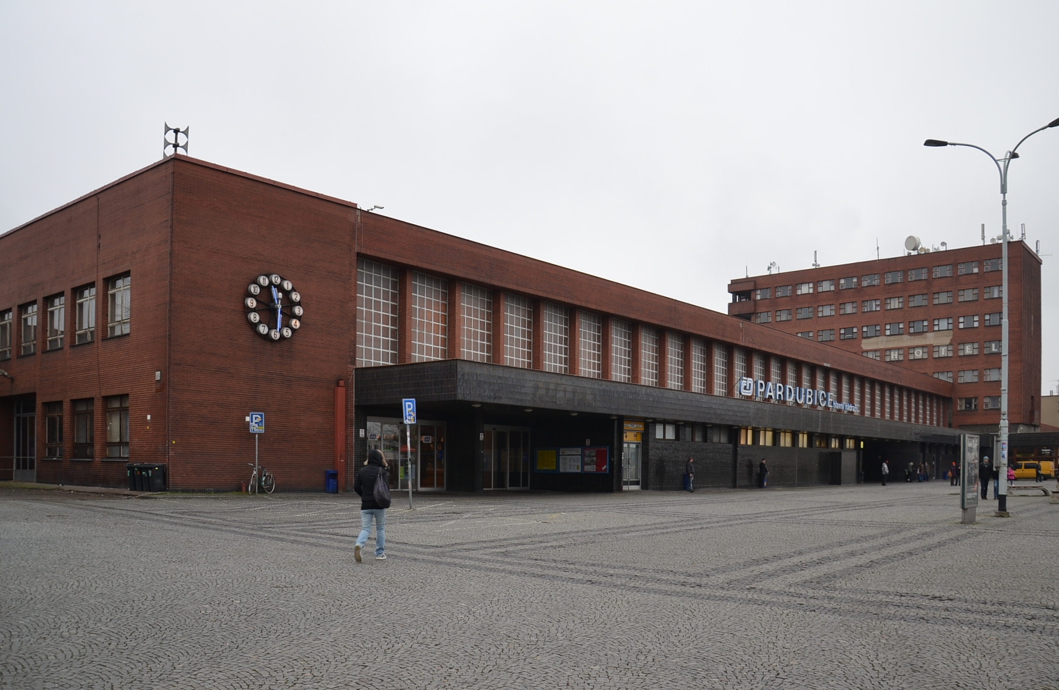 Pardubice (Pardubitz), Czech Republic - Central train station